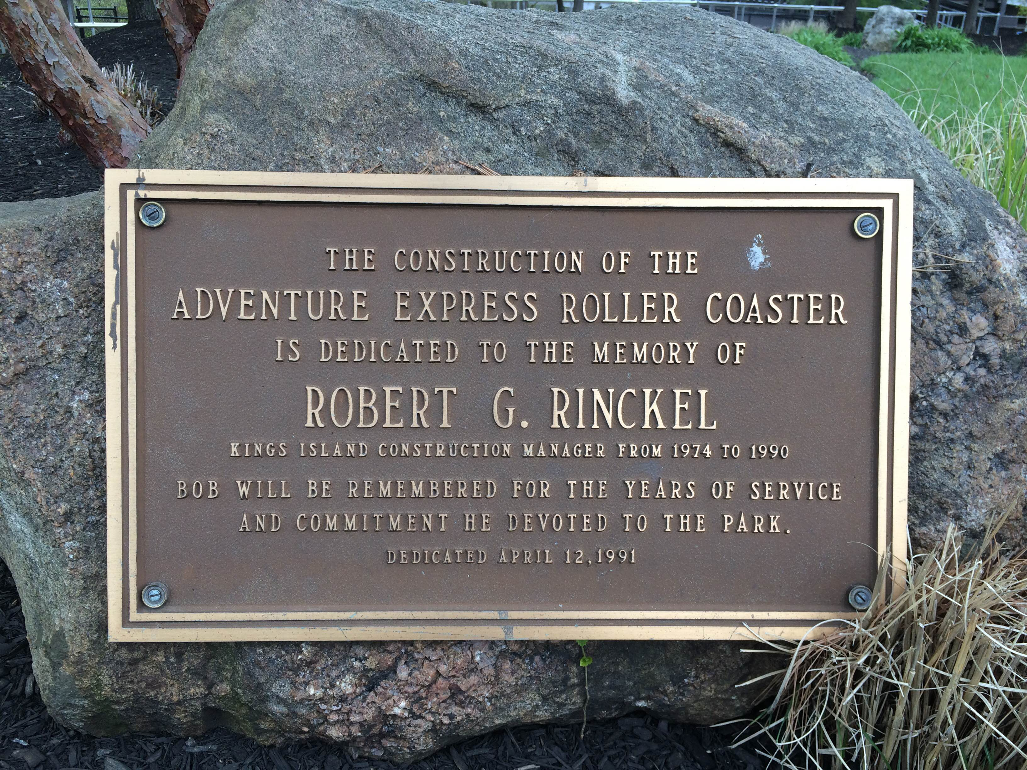 A Plaque at the entrance of the Adventure Express roller coaster at Kings Island Amusement Park